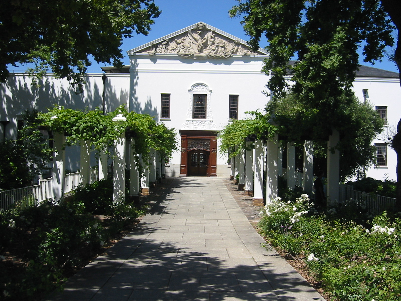 This is one of the KWV-buildings in Paarl. KWV stands for 'Kooperratiewe Wynbouers-vereniging.' The former KWV Co-operative was formed on 8 January 1918 by the South African wine farmers, to act as a spokesperson, adviser, producer and marketing innovator to the South African wine industry in general, and to its farmer members.